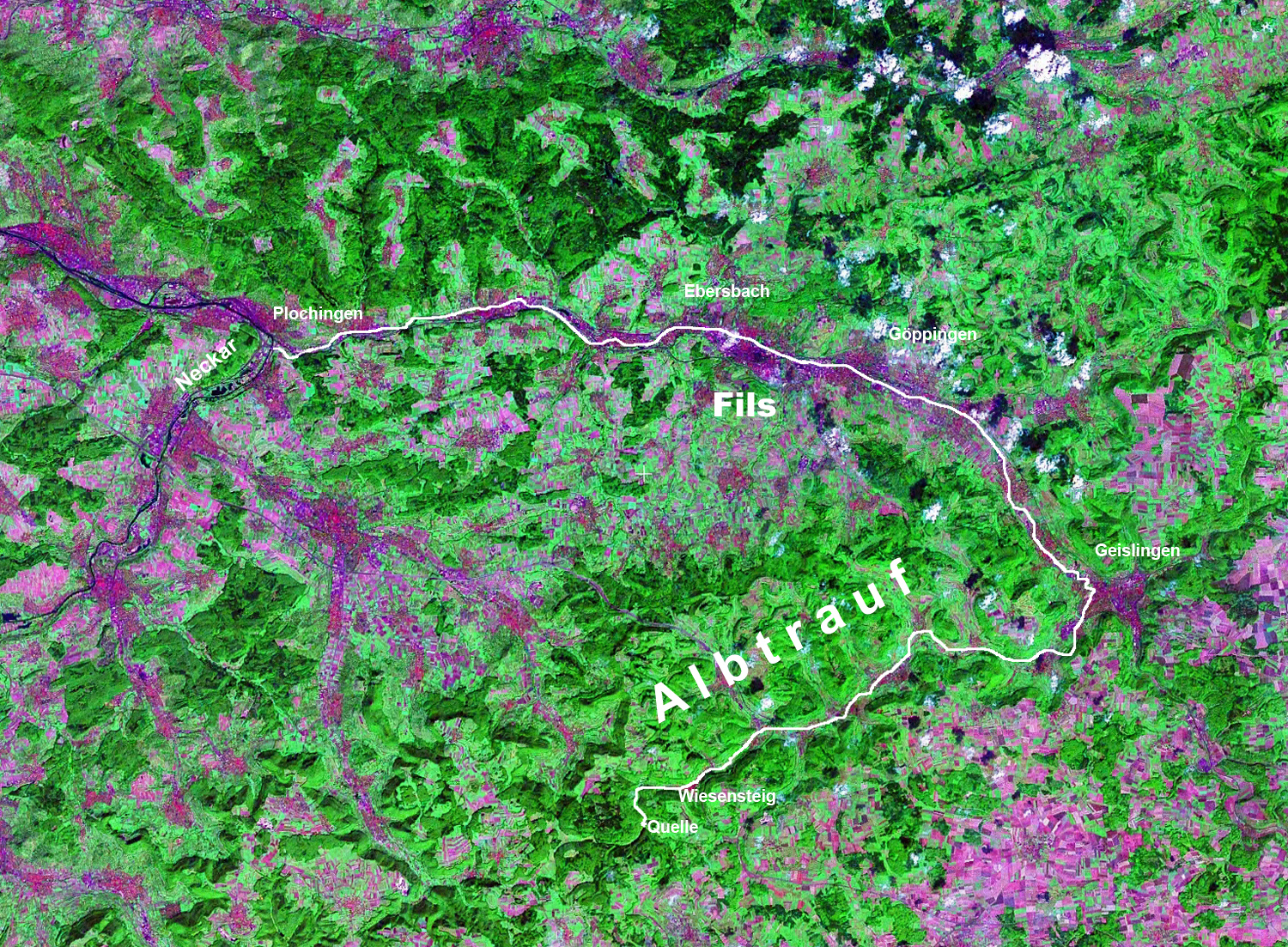 River Fils with its spring on the Swabian Alb, tributary to the Neckar